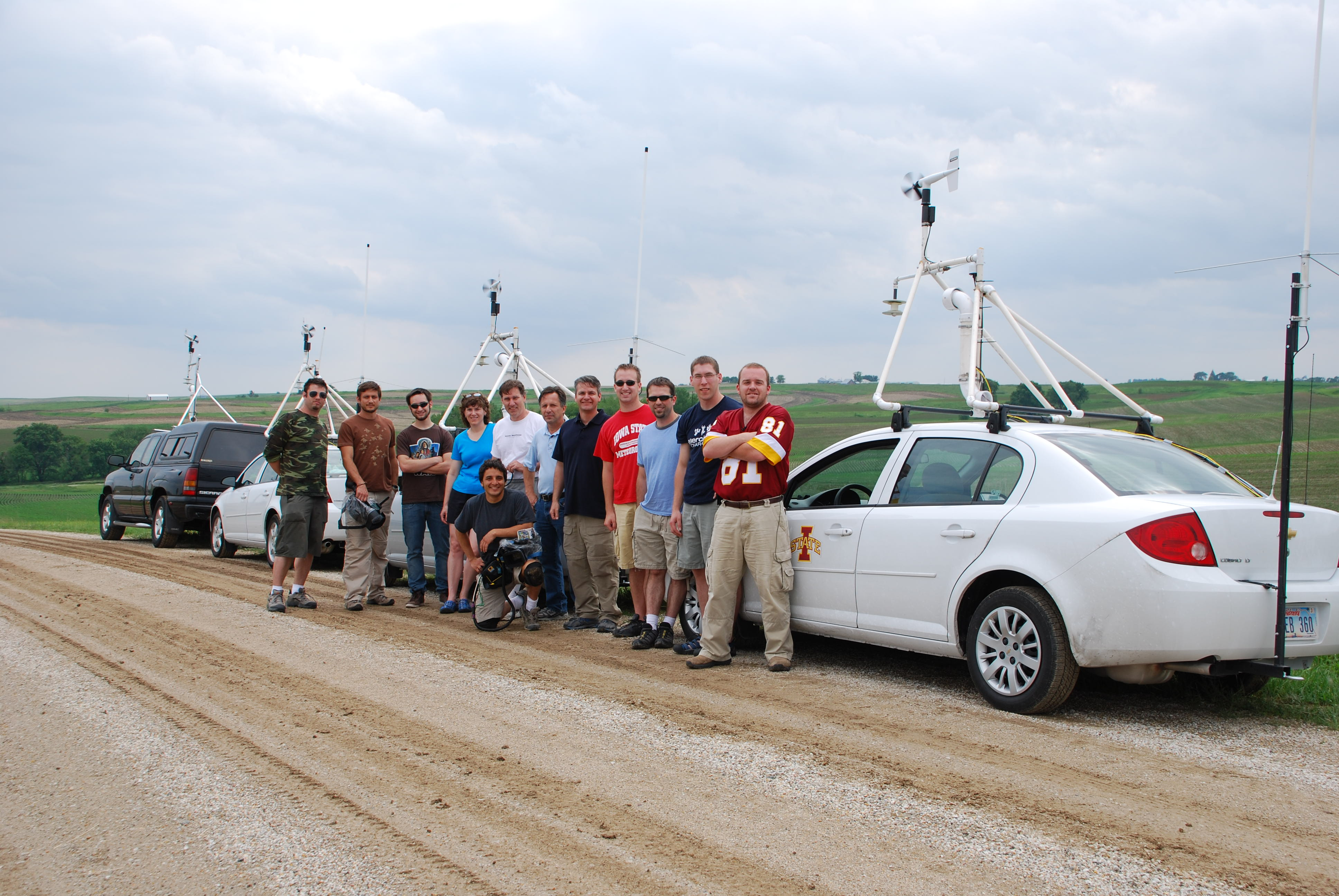 The 2009 TWISTEX group in Iowa